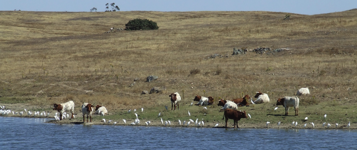 Cattle grazing